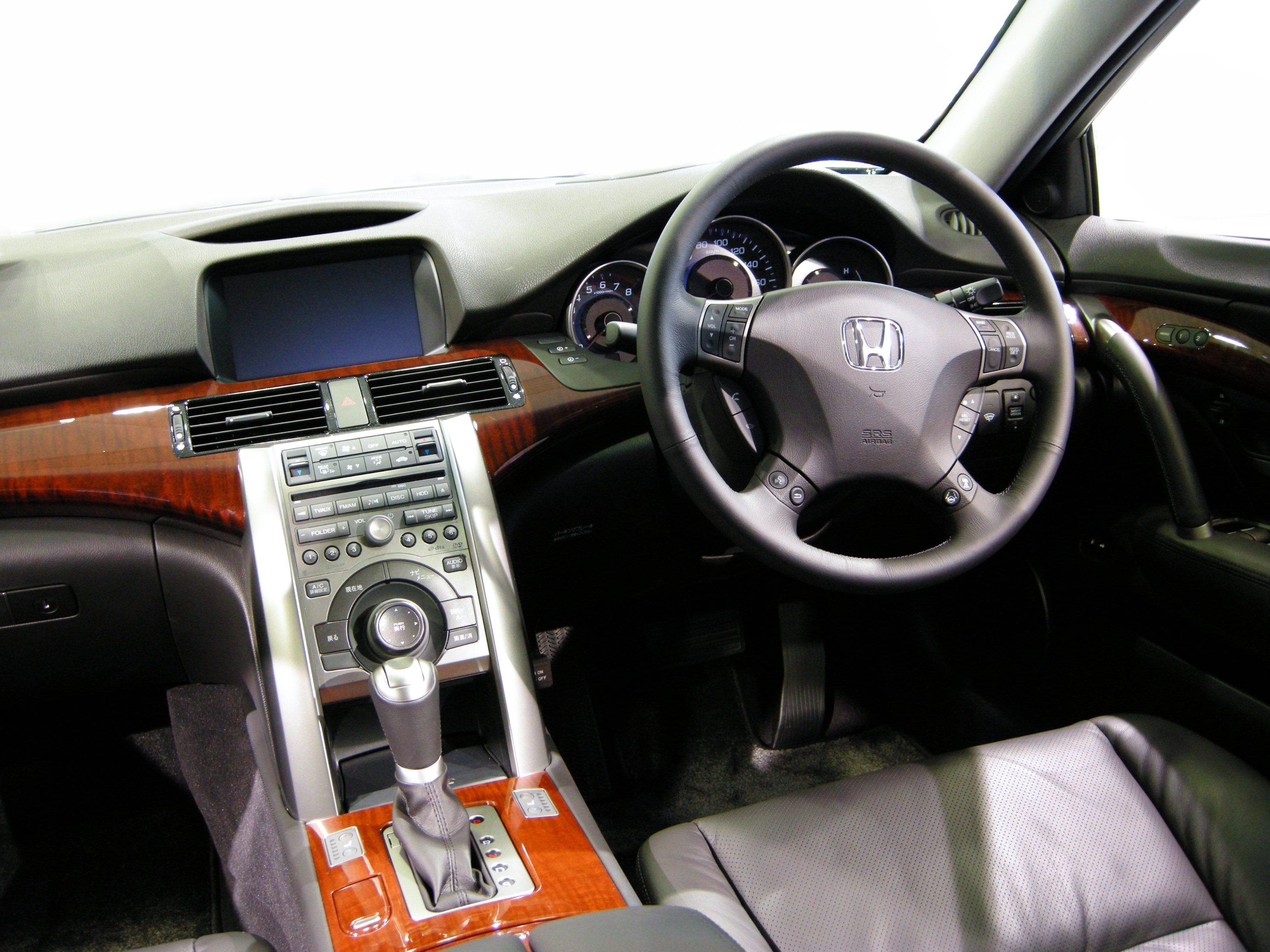 2008 Honda Legend Interior photographed in Honda Welcome Plaza Aoyama (Minato, Tokyo)